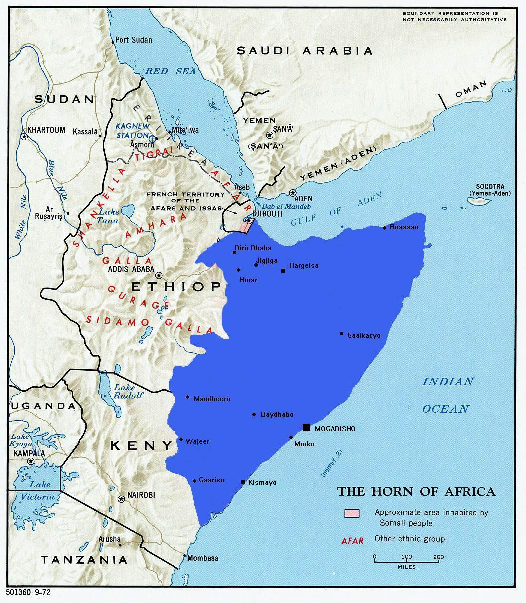 Greater Somalia drawn on old political map of the Horn of Africa